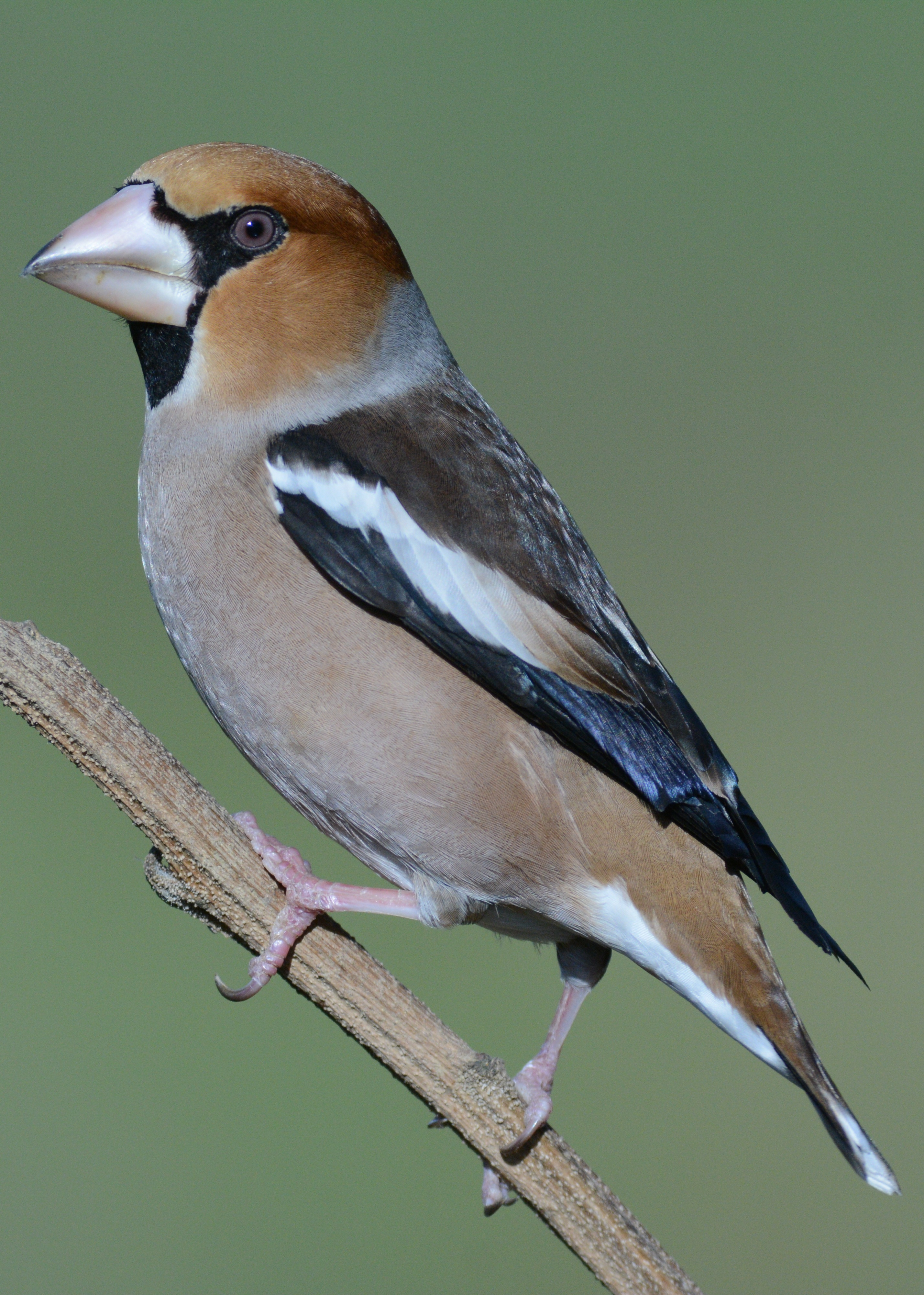 Male Hawfinch perching close to a feeder in Parco della Piana, in the town of Sesto Fiorentino, vicinity of Florence Italy, end of January 2015